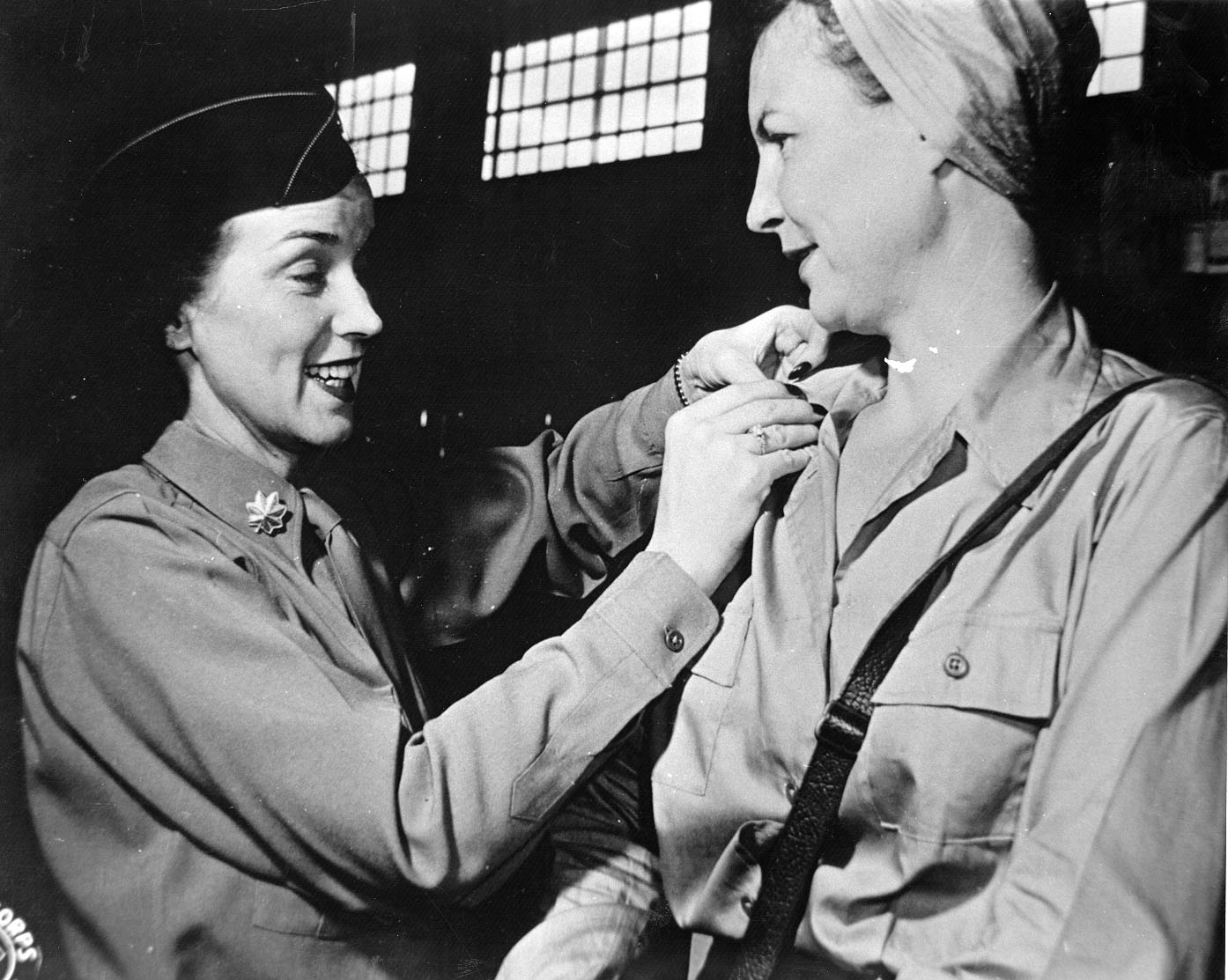 LT Rosemary Hogan, recently rescued from Santo Tomas, gets new bars from Maj. Juanita Redmond.